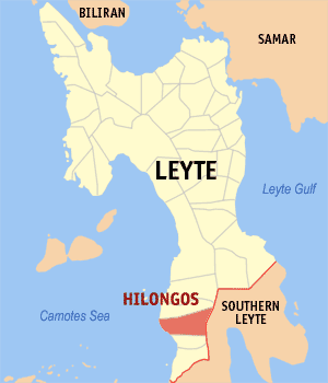 Map of Leyte showing the location of Hilongos